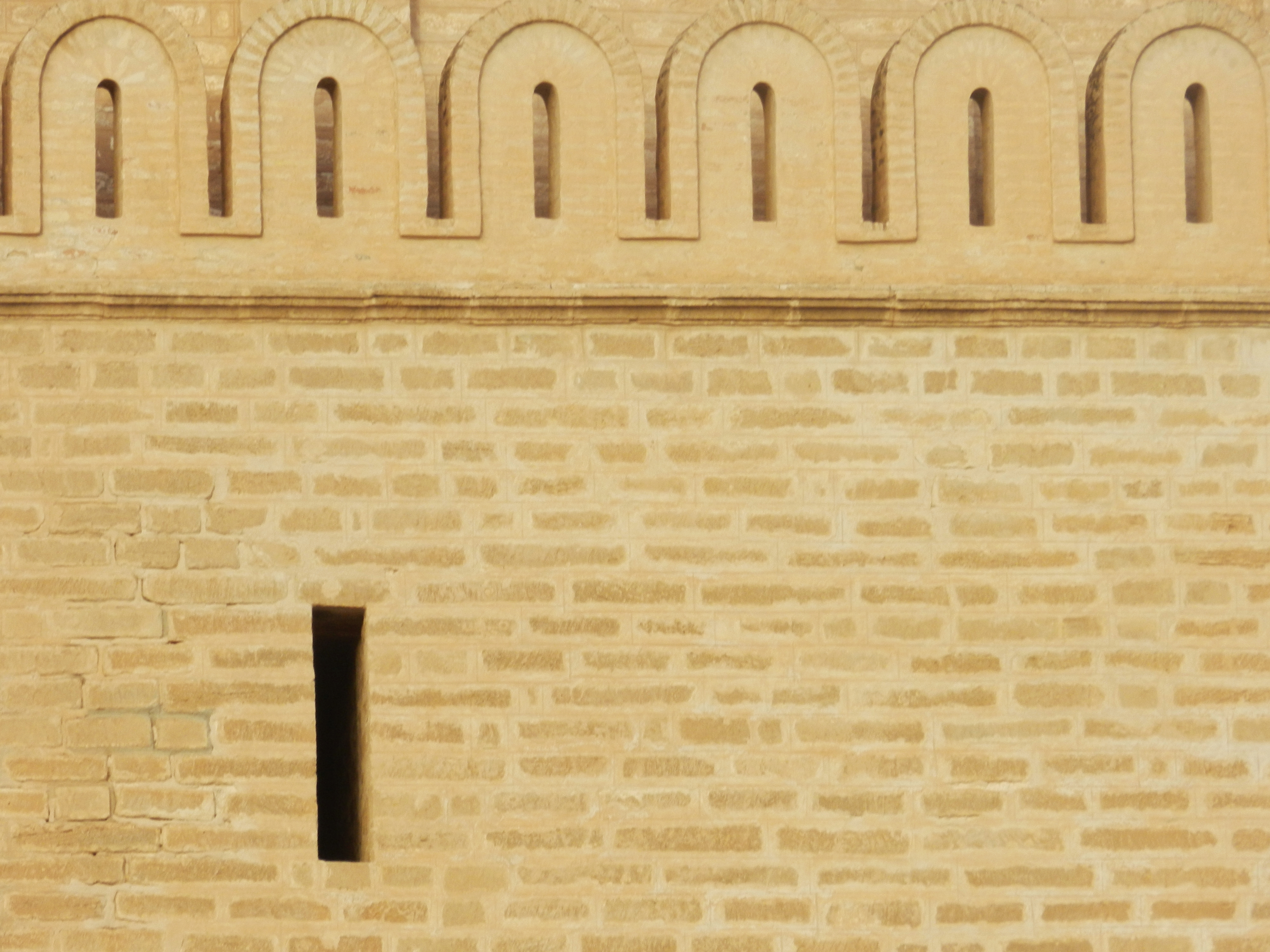 View of the merlons of the minaret of the Great Mosque of Kairoun, in Tunisia.